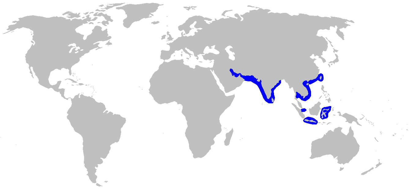 Distribution map for Chaenogaleus macrostoma